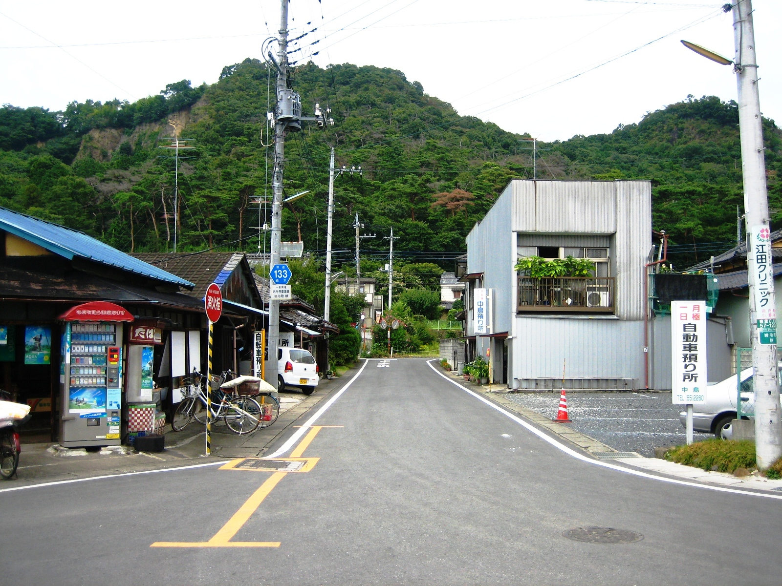 Byosoku 5 cm Episode 01 Iwafune Station Square 岩舟駅前